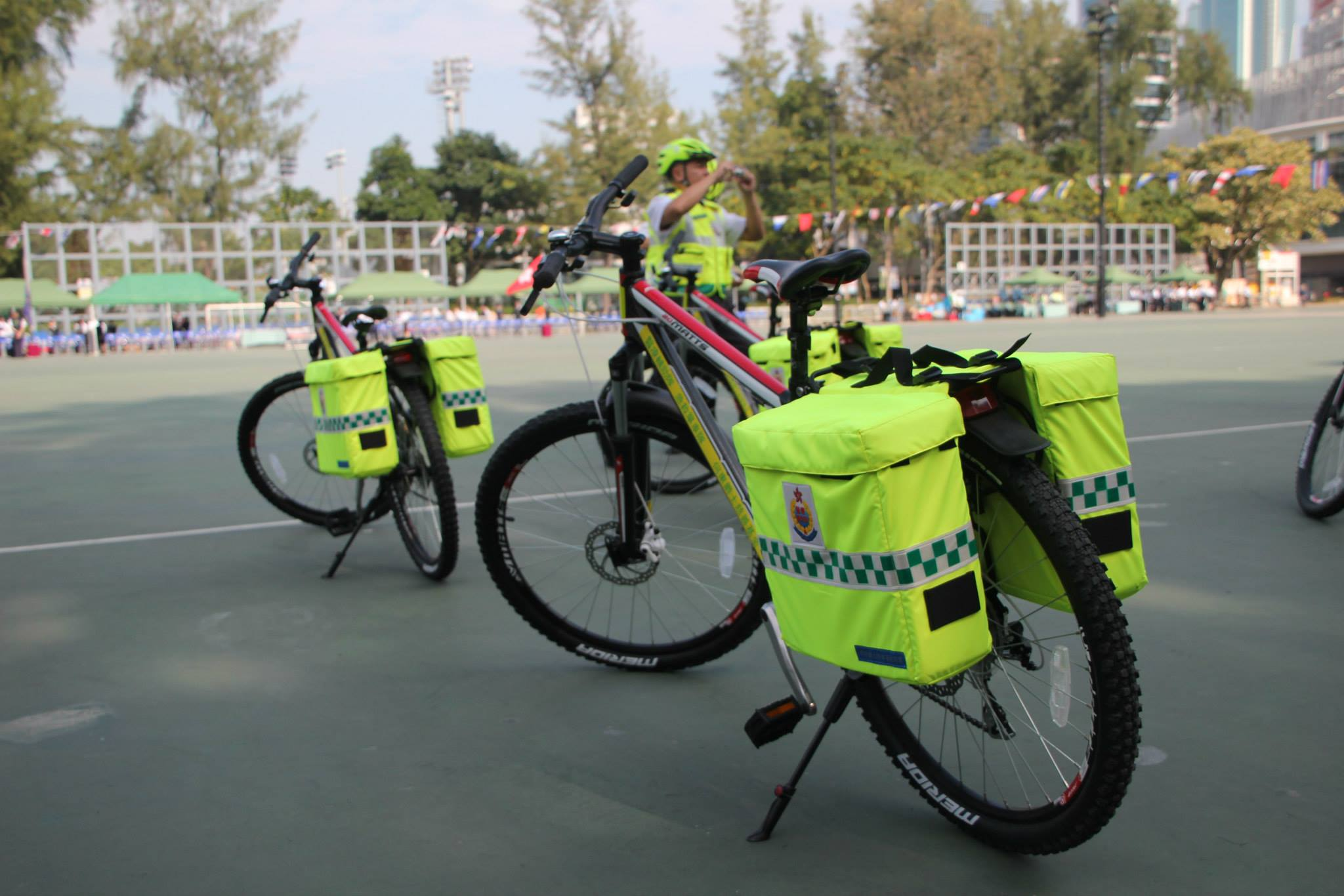 Bicycle that used by Auxiliary Medical Service in 2013